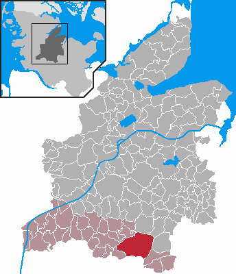 Locator maps of the municipality Aukrug in Schleswig-Holstein - District Rendsburg-Eckernförde